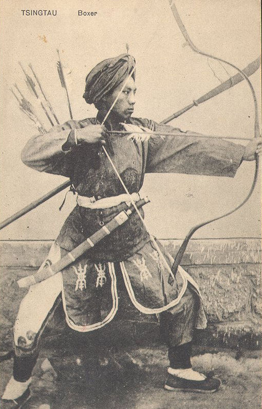 historic postcard of Qingdao, China (around 1900)